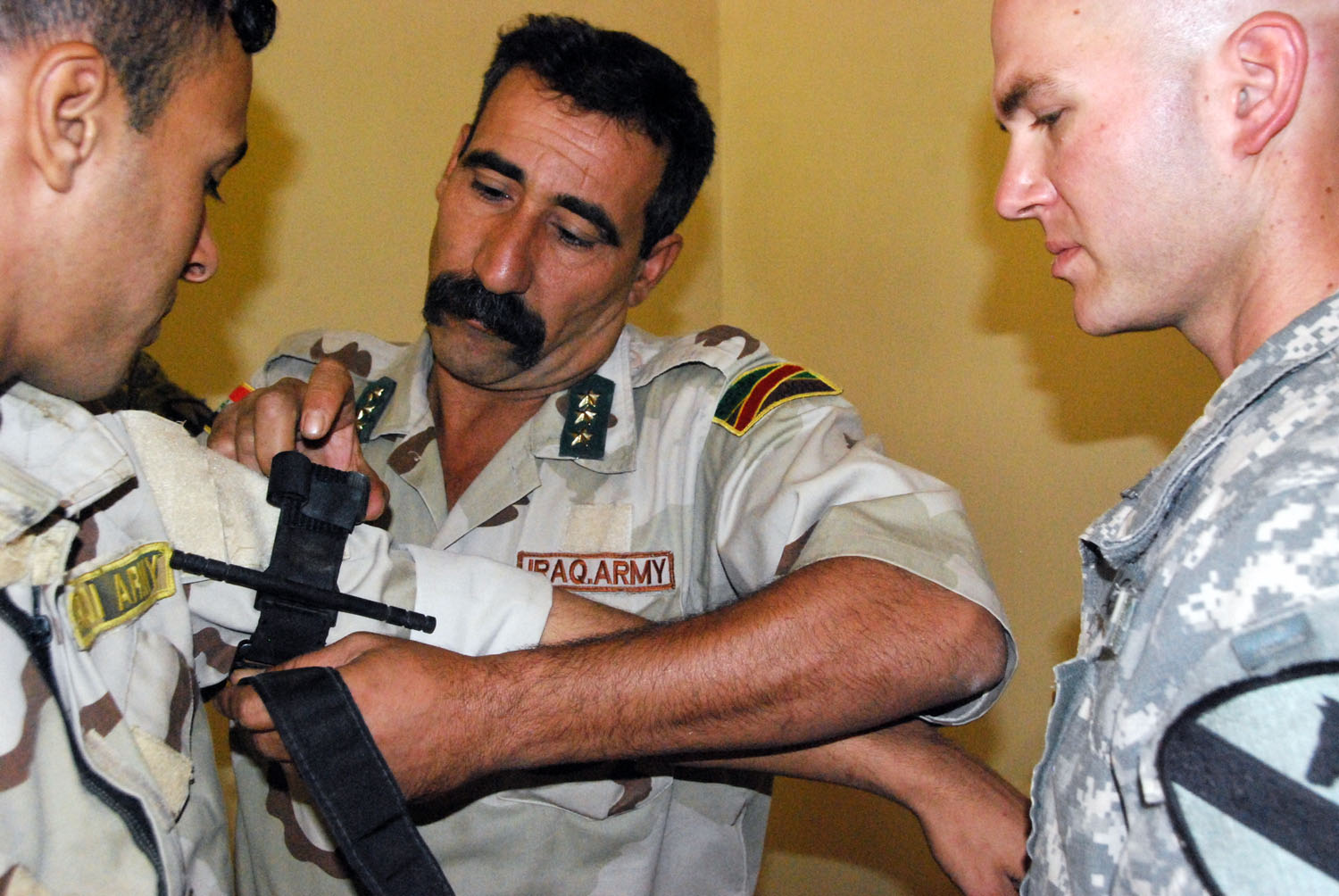 CAMP TAJI, Iraq- Naples, Fla. native, Sgt. John Juhnke (right), a combat medic with 1st Battalion, 82nd Field Artillery Regiment, 1st Brigade Combat Team, 1st Cavalry Division, watches as soldiers from the 37th Brigade, 9th Iraqi Army Division practice the proper application of a tourniquet, here, Oct. 10. The medical training is one of many classes the U.S. troops teach as a part of their week long Tiger Academy with Soldiers from the 37th Brigade, 9th Iraqi Army Division.